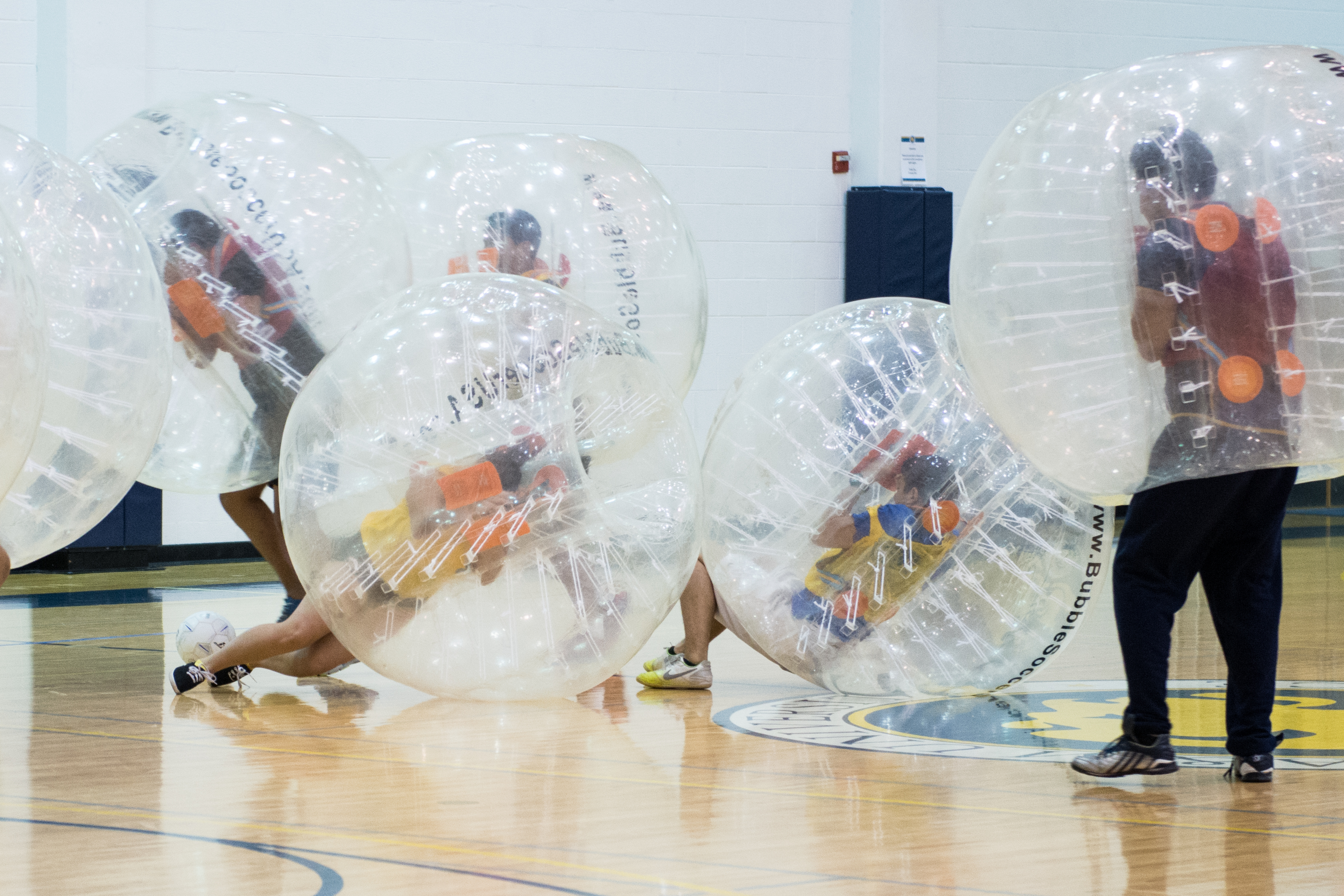 14548-Bubble Soccer-8883.jpg Bubble soccer at Texas A&M University–Commerce